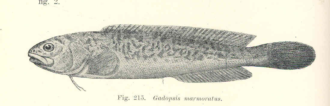 Gadopsis marmoratus Subject: Tautog, Gadopsis, Gadopsidae Tag: Fish